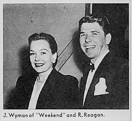 Jane Wyman of Weekend and Ronald Reagan in 1946